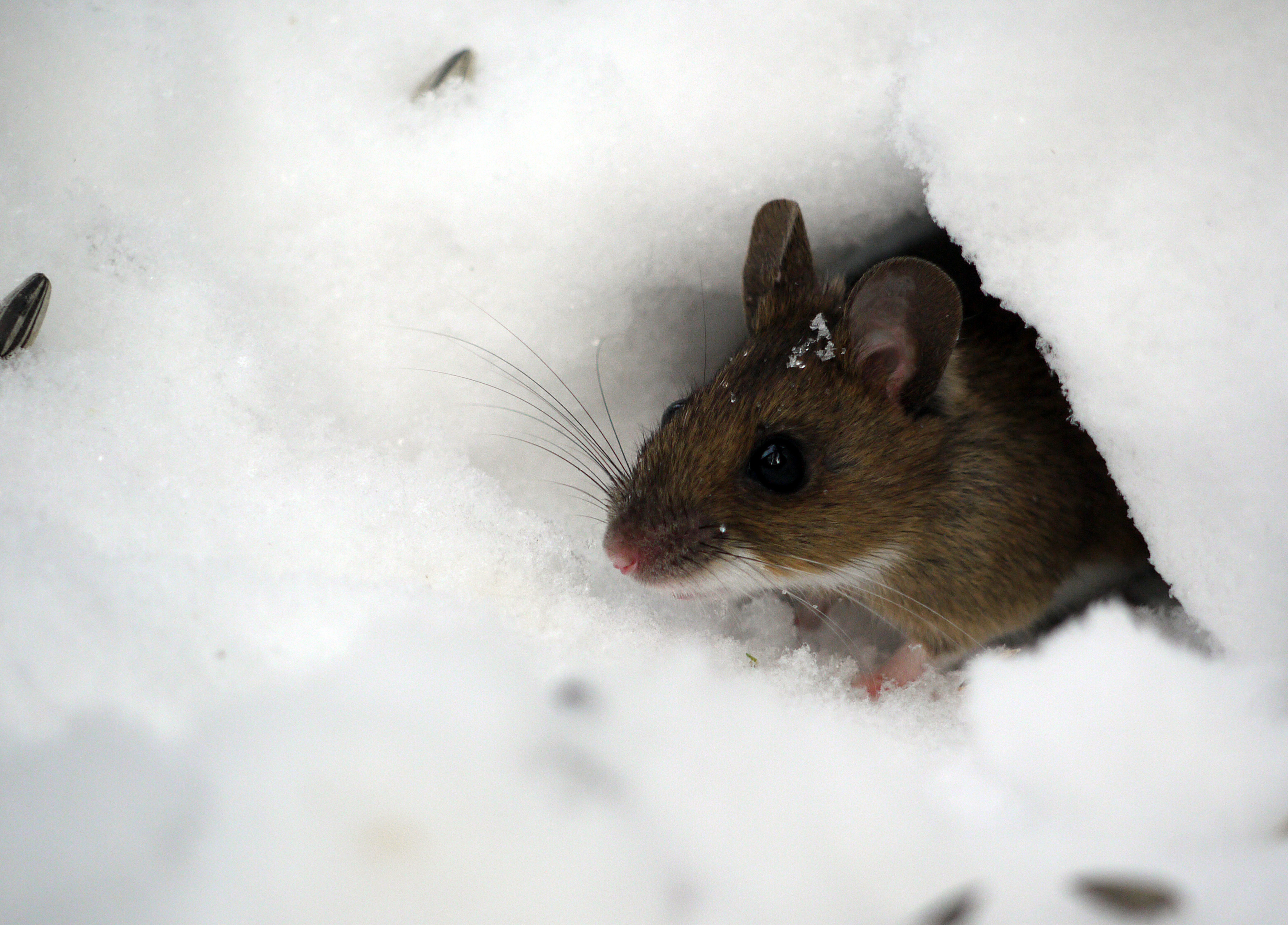 Apodemus flavicollis. In Helsinki, Finland.